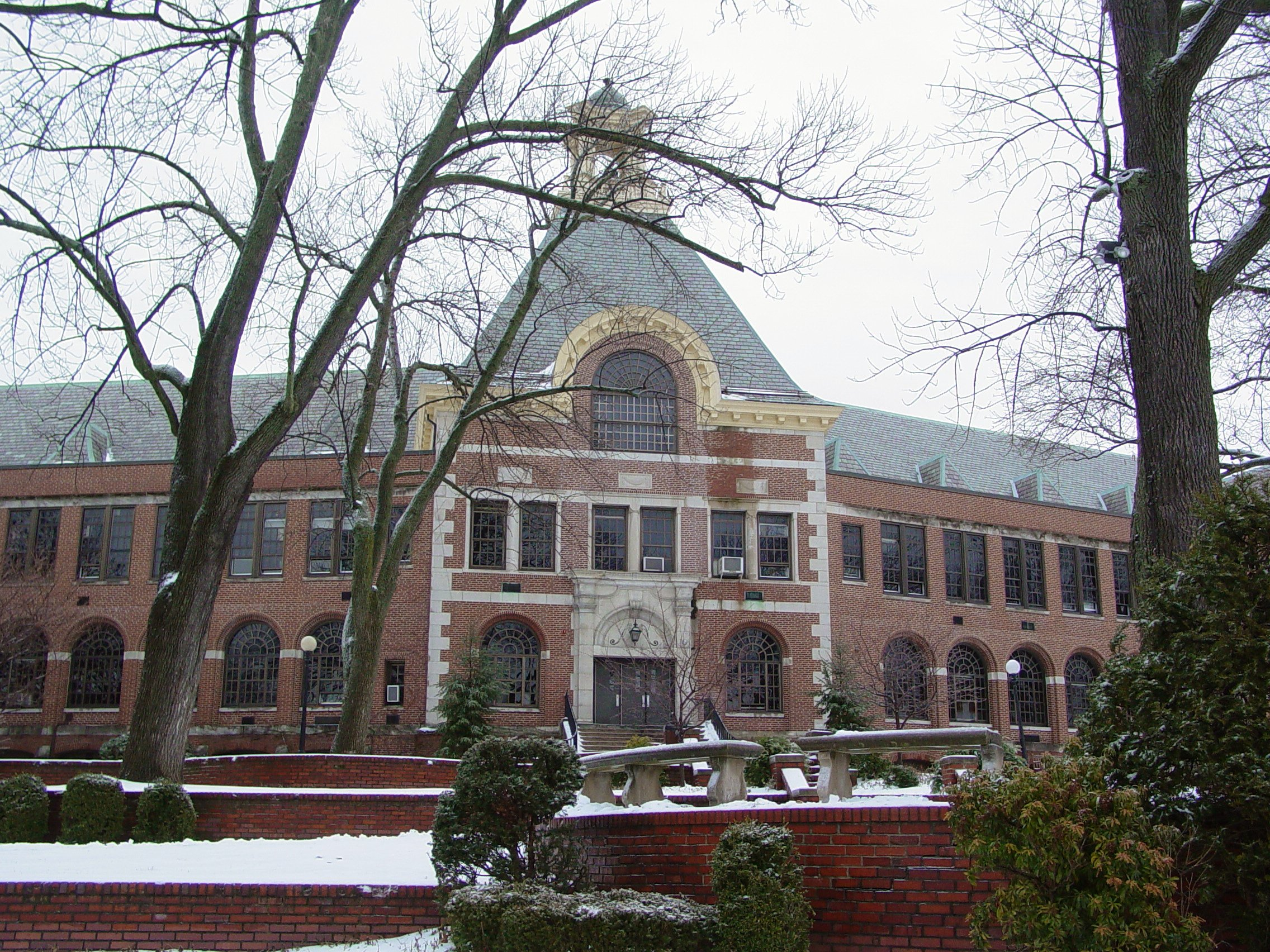 Ridgewood High School in Ridgewood, New Jersey